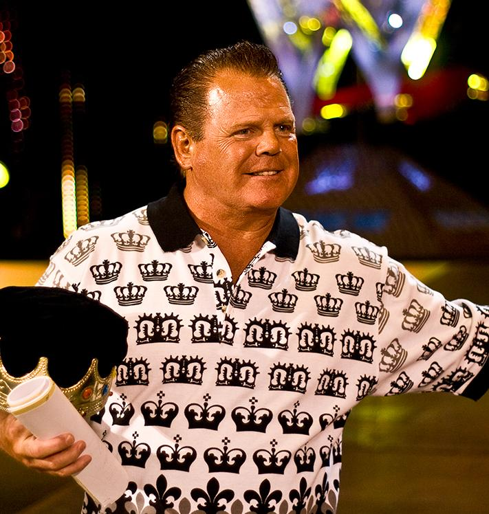 Jerry Lawler WWE Monday Night Raw 800th Tampa